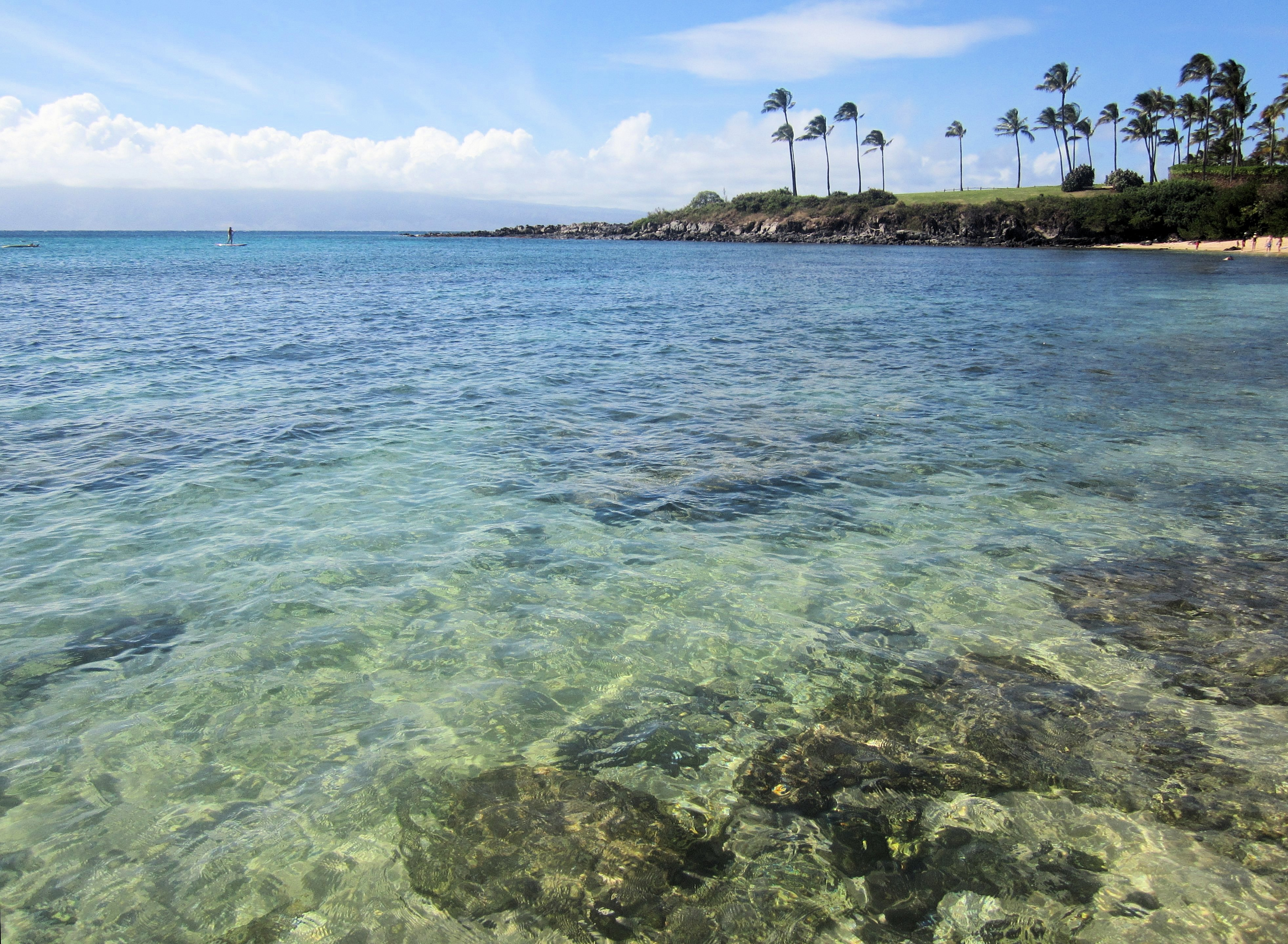 Clear Water at the Kapalua Bay on the North-Shore of Maui.